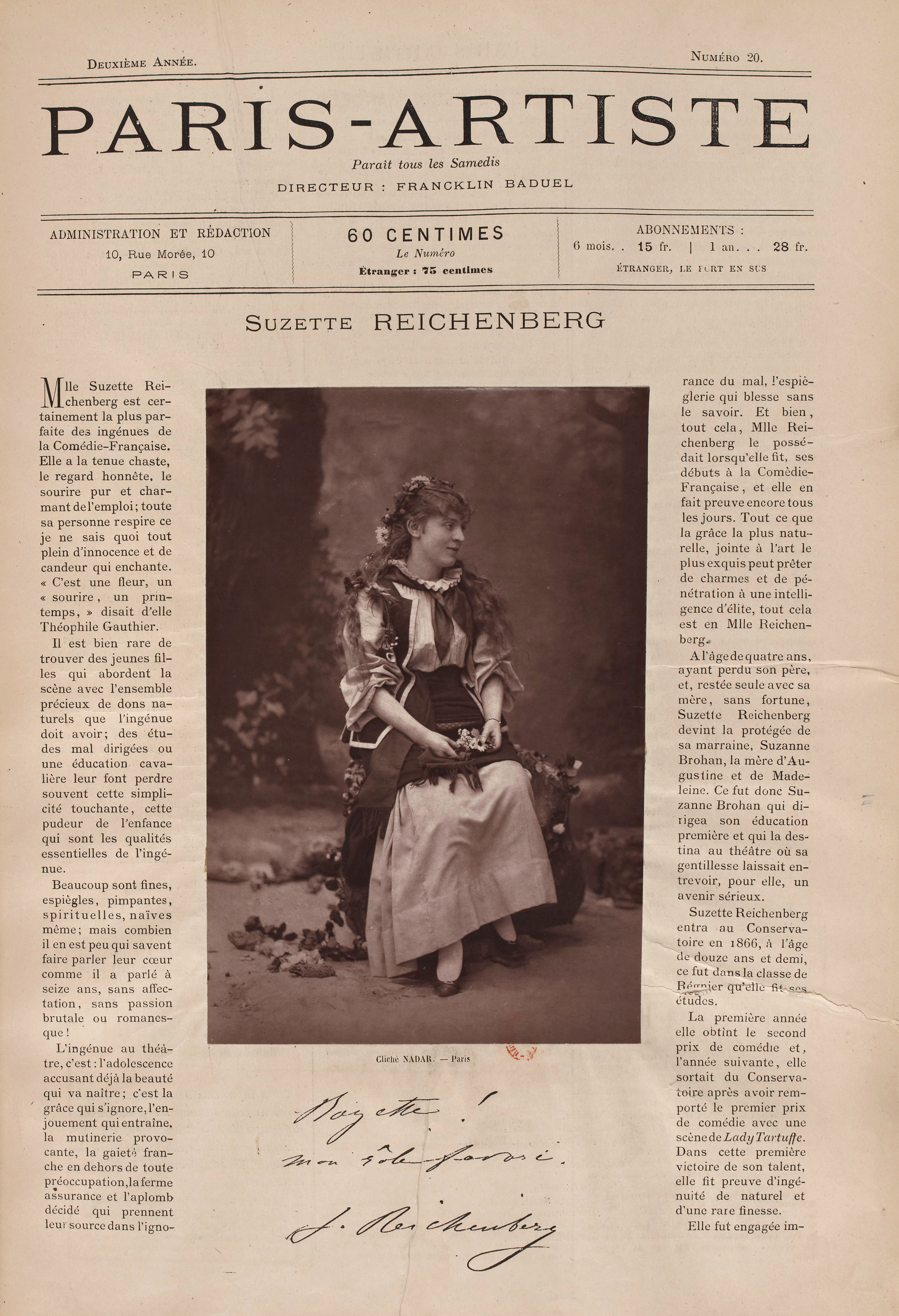 Hebdomadaire Paris-Artiste, n°20 1884. Photoglyptie (woodburytype) de Suzette Reicenberg, photo Nadar.